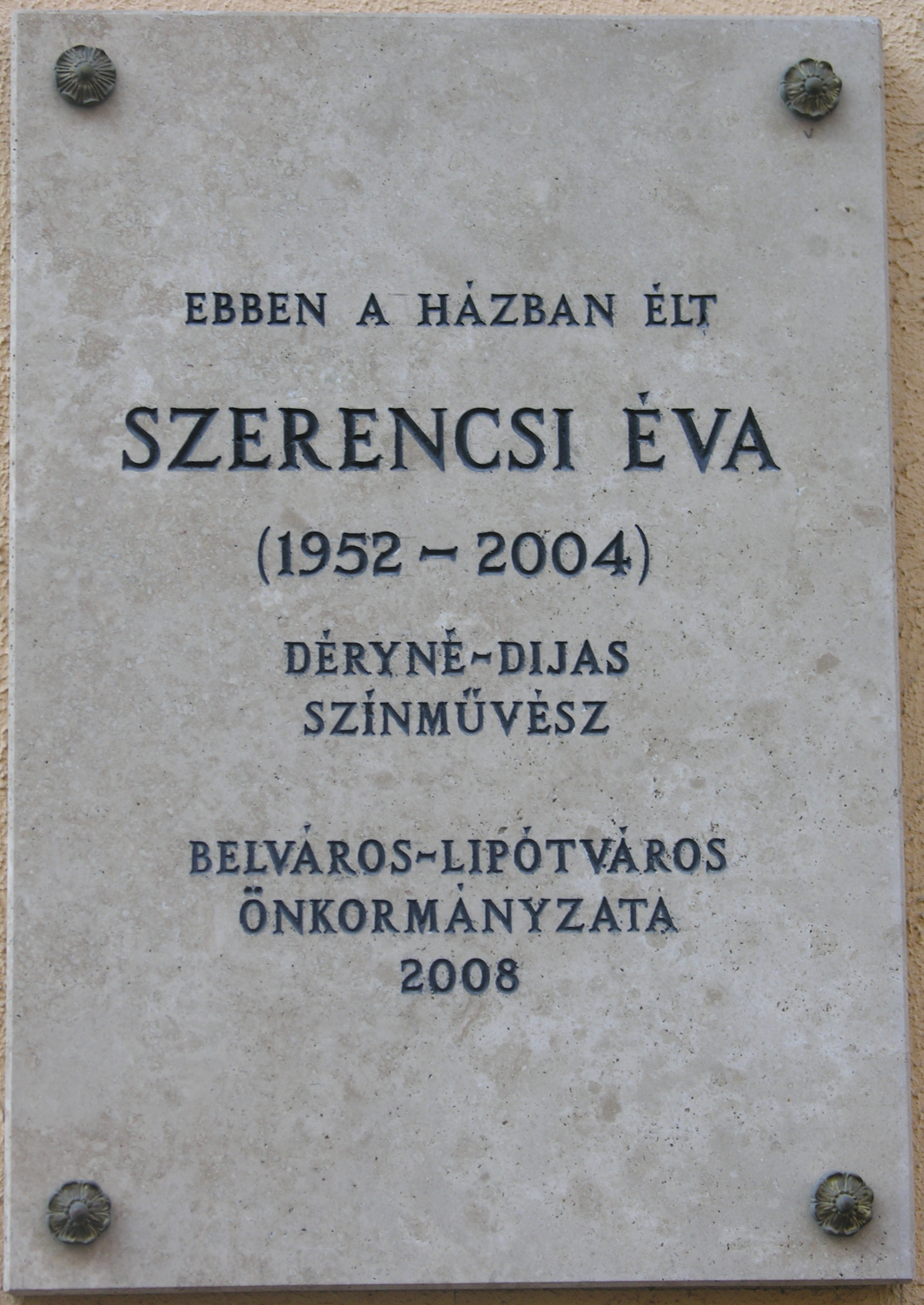 Commemorative plaque of Éva Szerencsi in Budapest District V, Báthori utca No 22